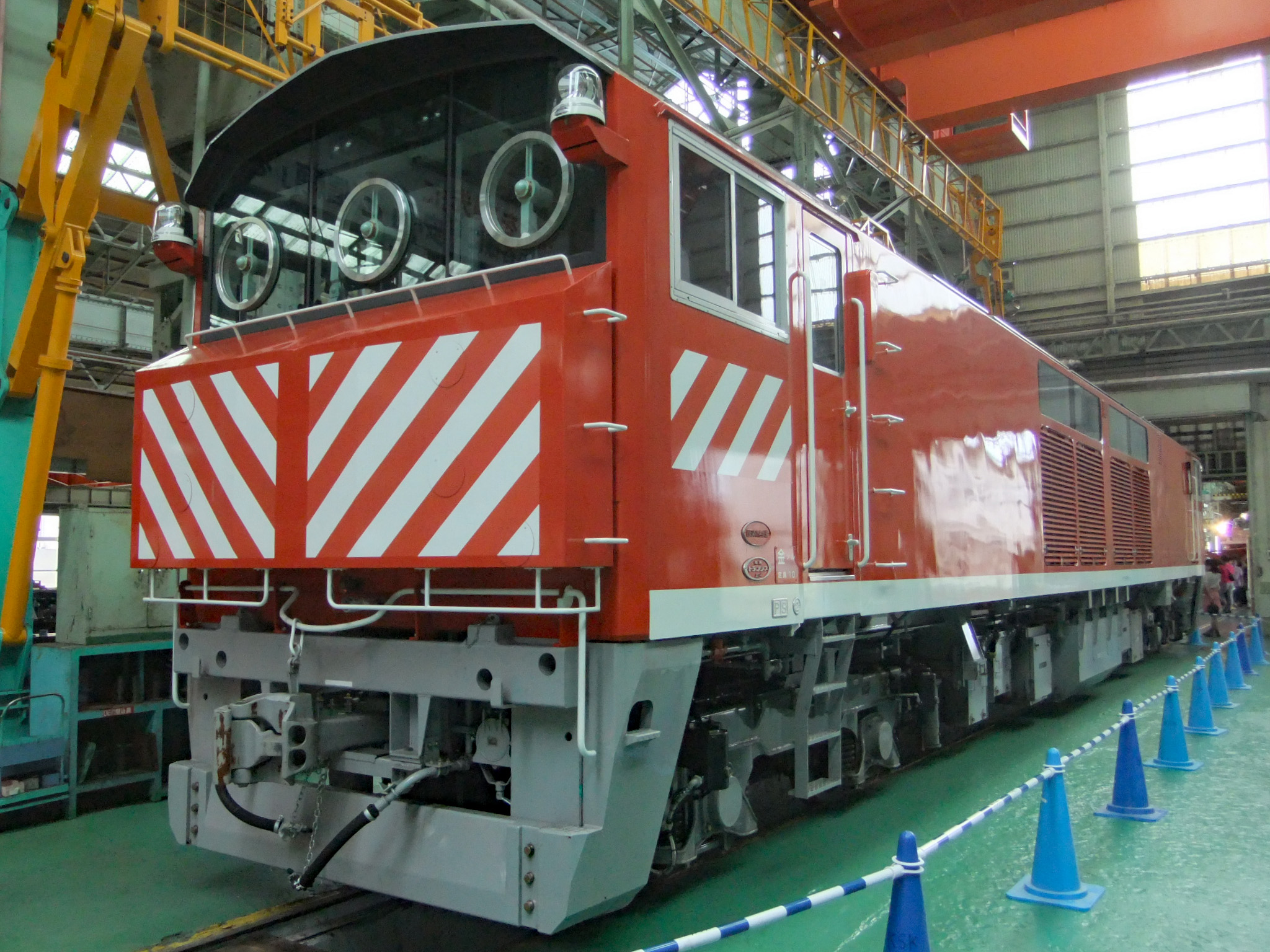 JR West KiYa 143-2 snowplough diesel locomotive (with snowploughs removed) at Kanazawa Depot open day